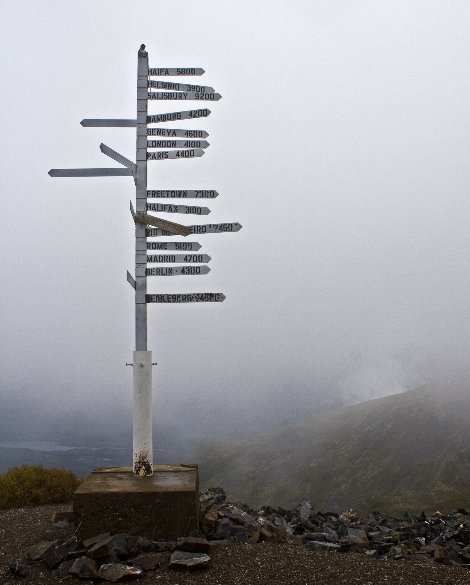 Signpost at the top of Keno Hill